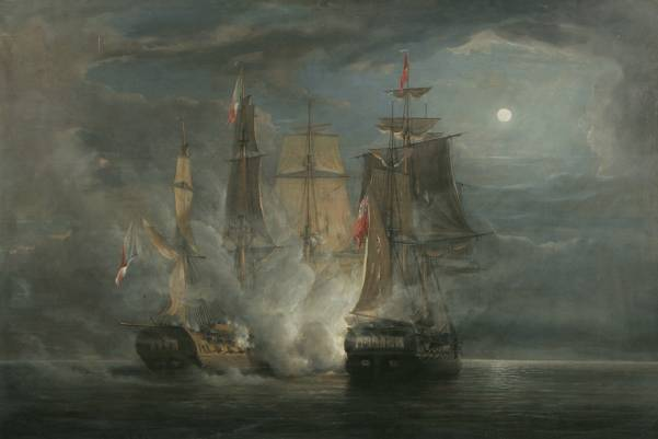 A depiction of the H.M.S. Amelia and the French frigate Aréthuse in battle.